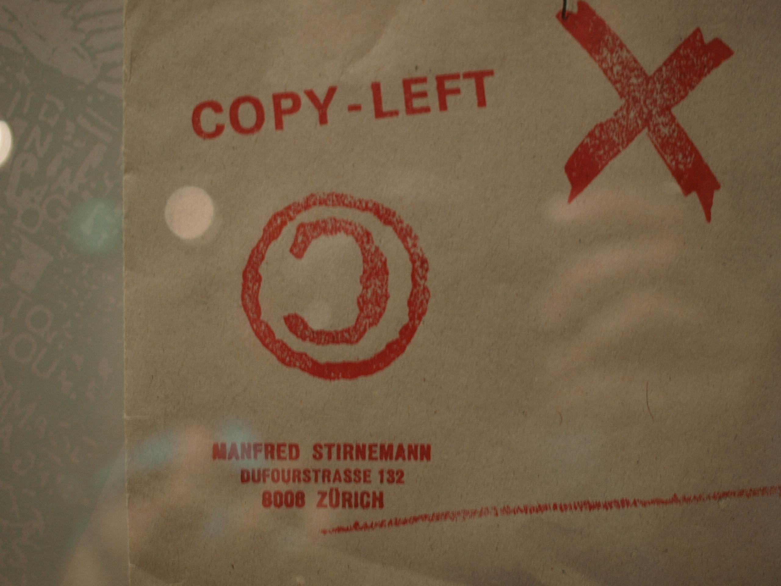 Mail art, Copyleft by Manfred Stirnemann